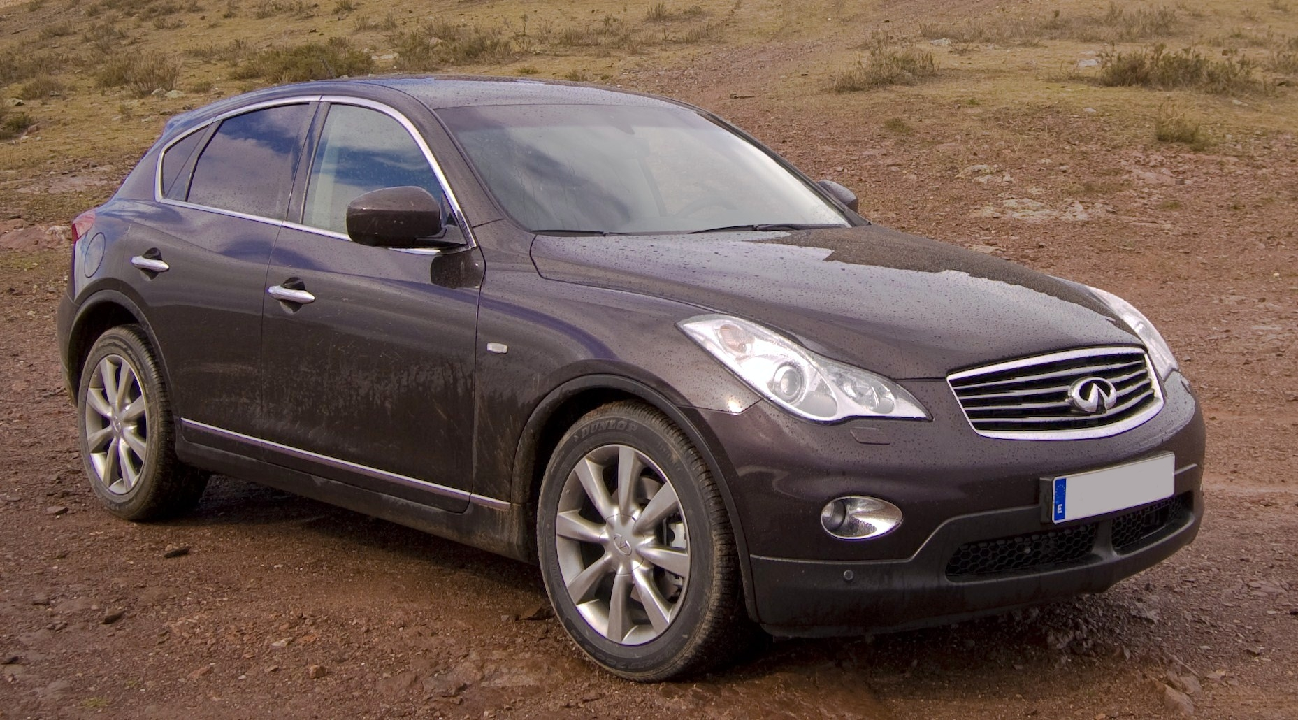 INFINITI EX37